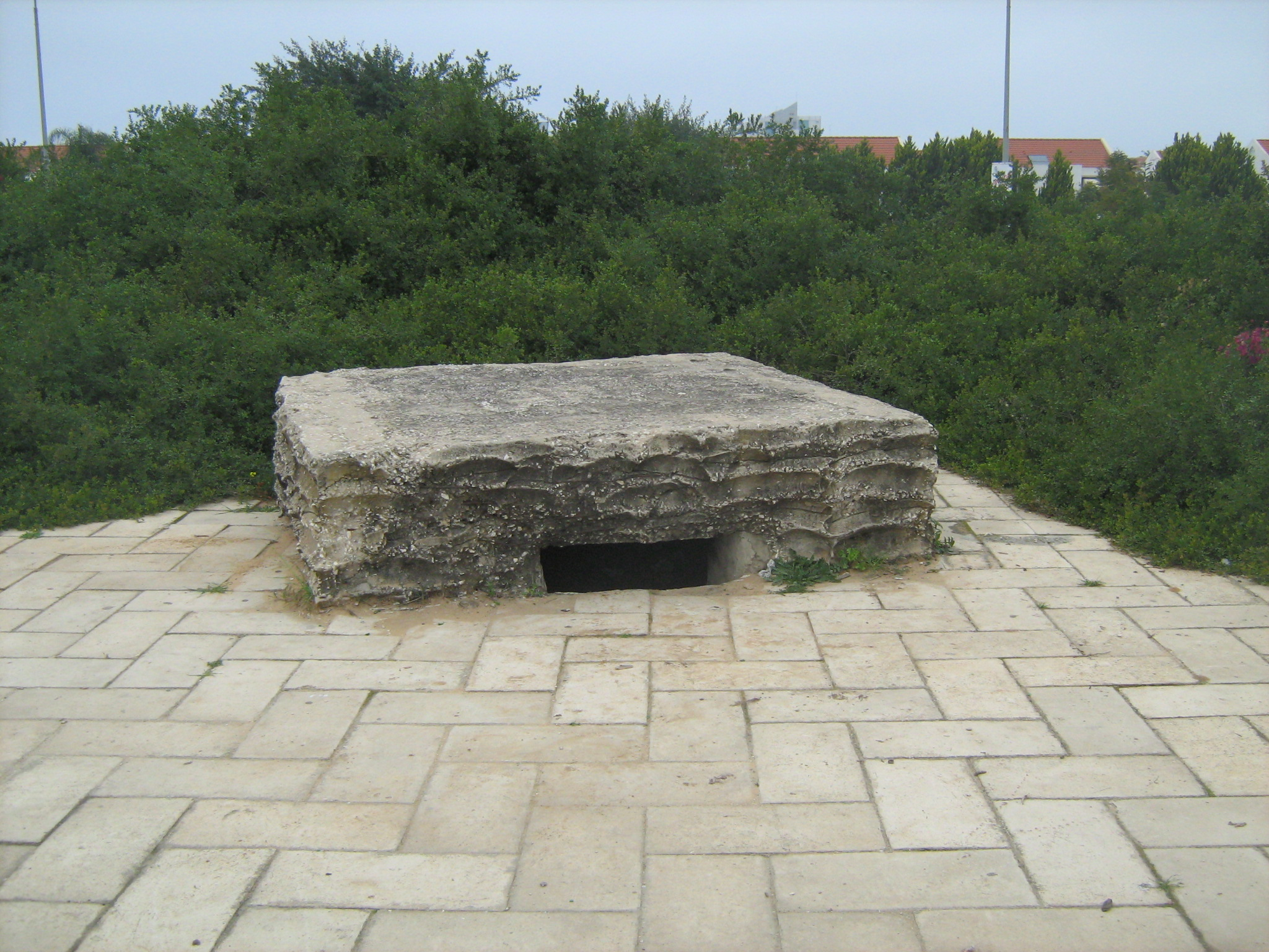 Vickers Machine Gun Pillbox at Ad halom bridge, near the city of Ashdod, Israel.